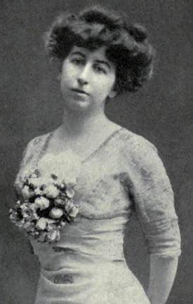 Annie Vivanti Chartres, from a 1910 publication. A white woman standing, her hair in a bouffant updo, wearing a light-colored gown with a cluster of small flowers attached at the bust.